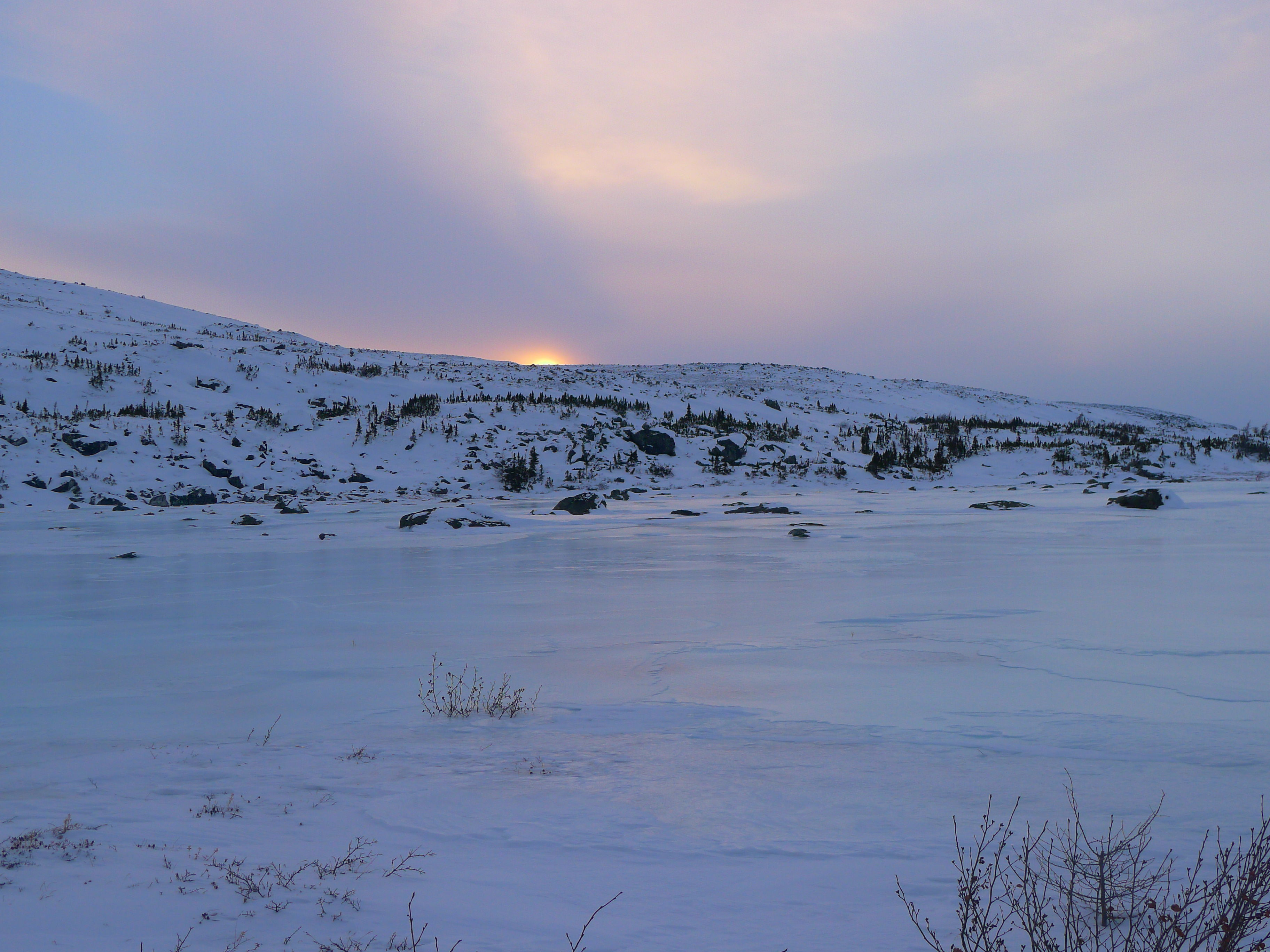 Sunset near Kangiqsualujjuaq, Quebec, Canada.